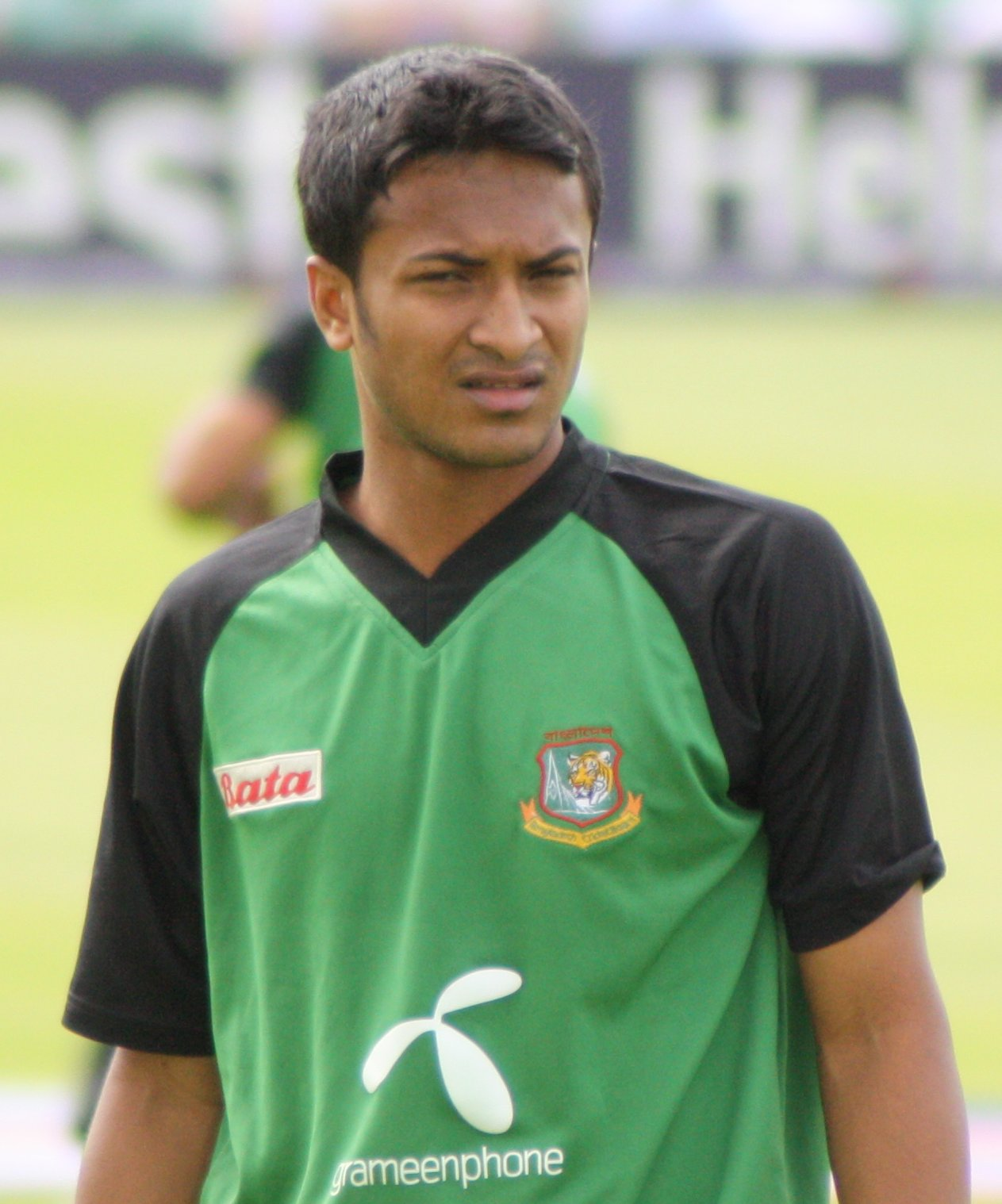 Shakib Al Hasan warming up prior to the 2nd ODI against England at the County Ground, Bristol. Bangladesh recorded their first victory over England in any form of cricket in this match.